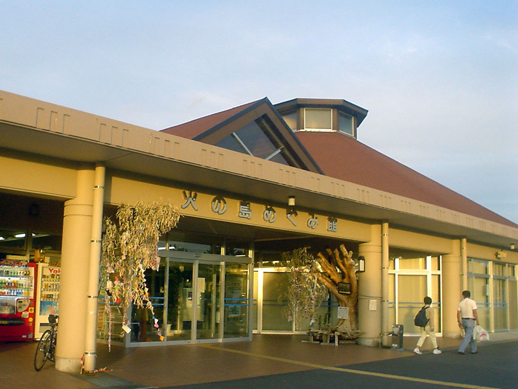 Michinoeki Sakurajima (Kagoshima-shi Kagoshima JAPAN)